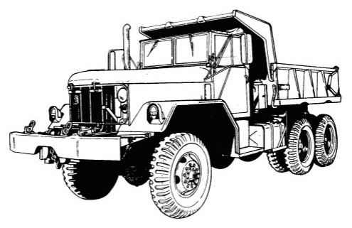 Left front side M51 Dump Truck